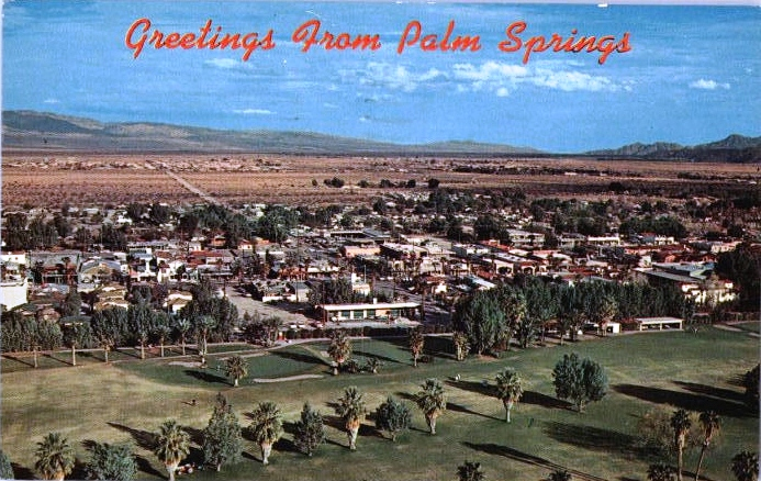 Color plastichrome postcard depicting an aerial photograph over a Palm Springs, California golf course in the 1960s. This postcard is postmarked from Palm Springs, California on July 1, 1969. The back of the postcard reads: PALM SPRINGS, CALIFORNIA AMERICA'S FAVORITE WINTER DESERT RESORT The central business district of the fabulous shopping area. Ultra-modern shops of all types including branches of nearly all major Los Angeles department stores and specialty shops make a "shopping spree in Palm Springs" reason enough for a visit Distributed by Petley Studios, 4051 E. Van Buren, Phoenix, Arizona. Plastichrome ®